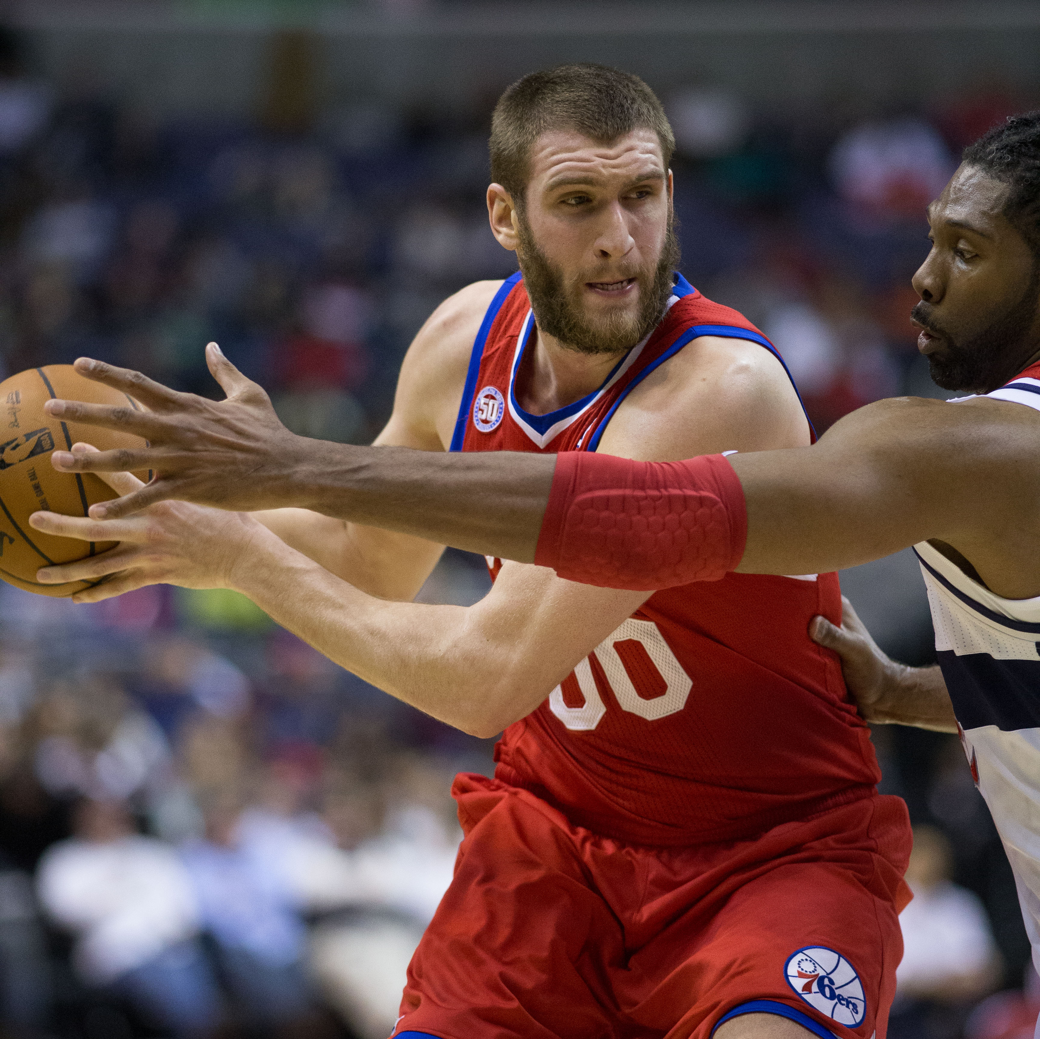 Philadelphia 76ers at Washington Wizards March 3, 2013